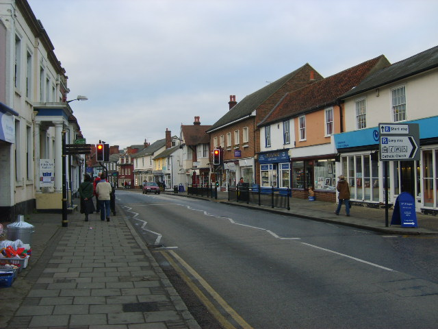 High Street, Great Dunmow A variety of different building styles with scarcely a national retail outlet in sight.